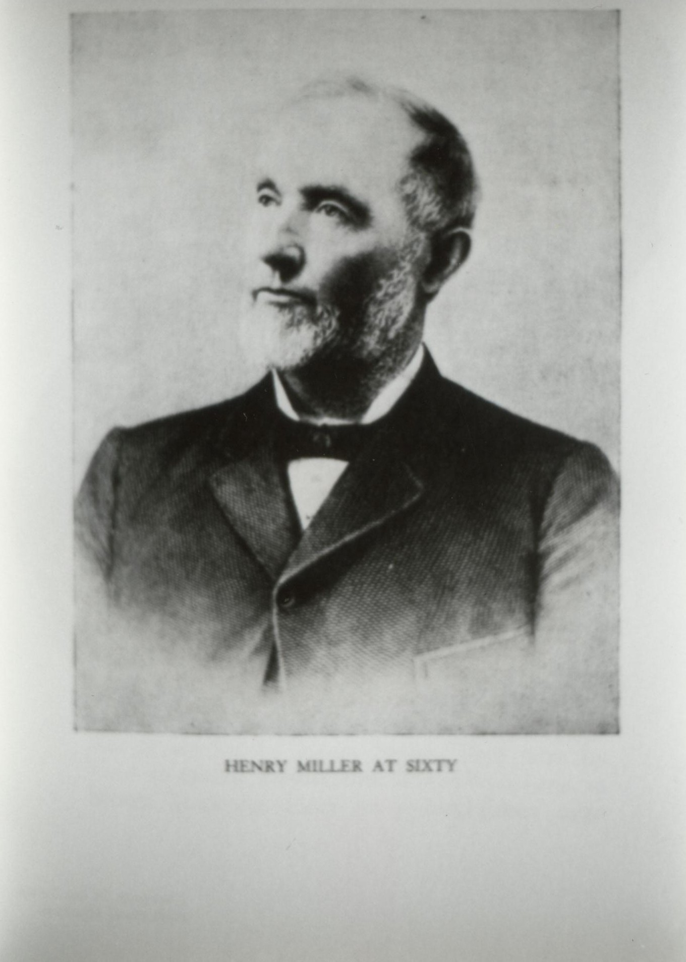 Henry Miller about 1887. From a cut made for the Gilroy Advocate.